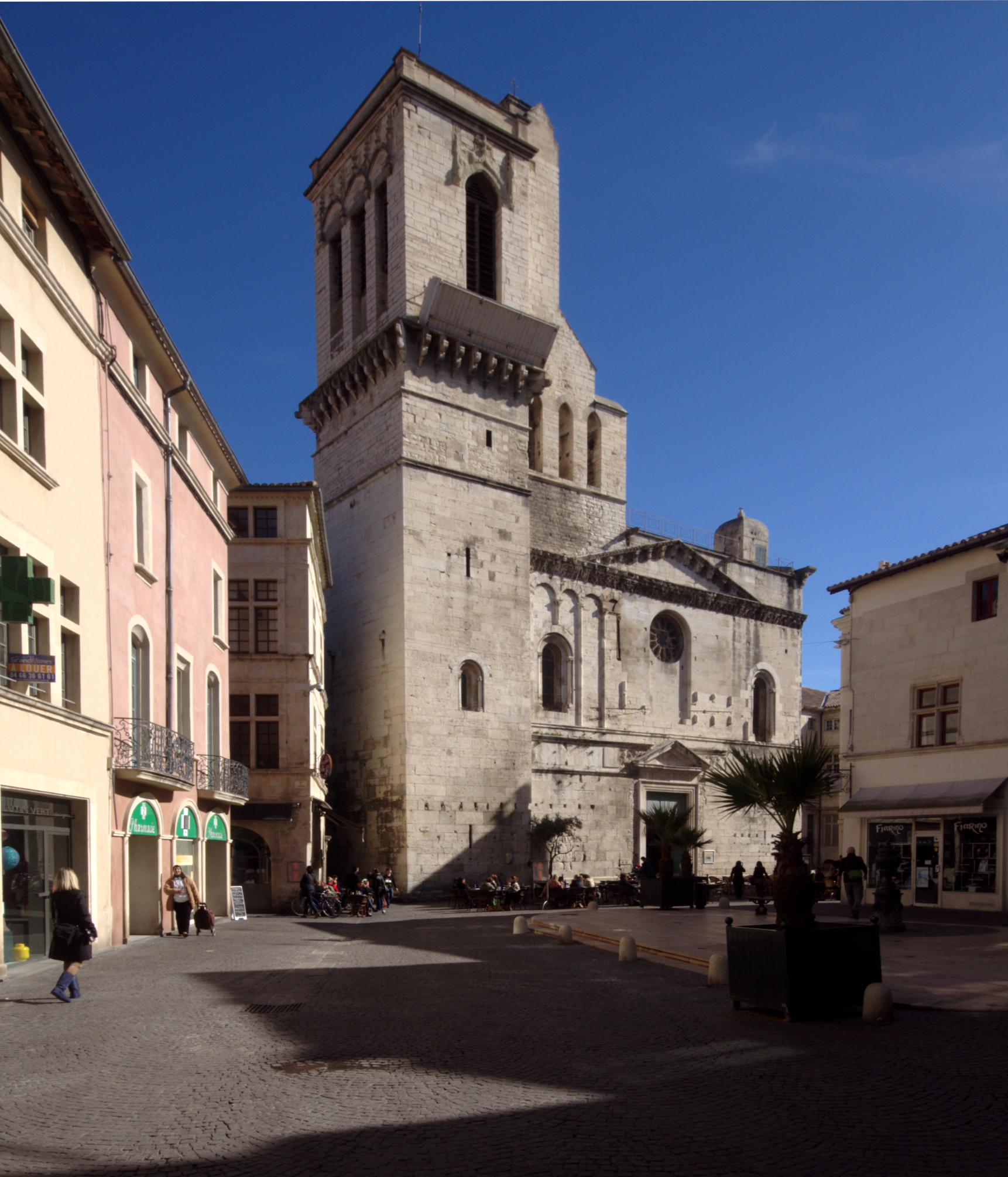 Cathédrale Notre-Dame-et-Saint-Castor